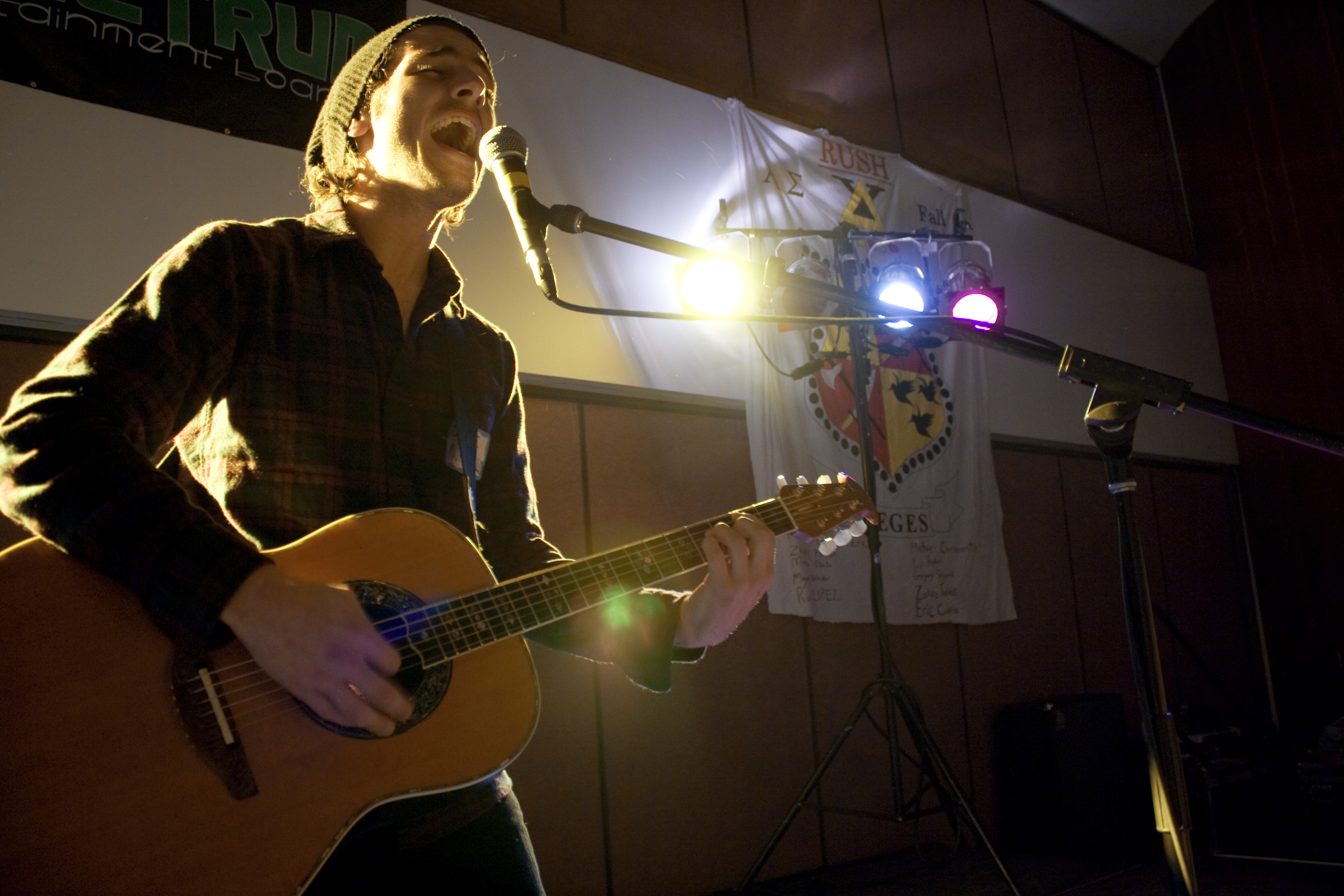 Melillo in 2009